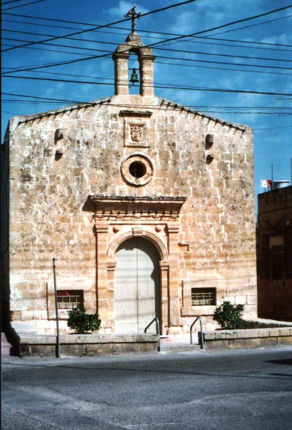 St. Clement Chapel Zejtun. Photo taken by myself.